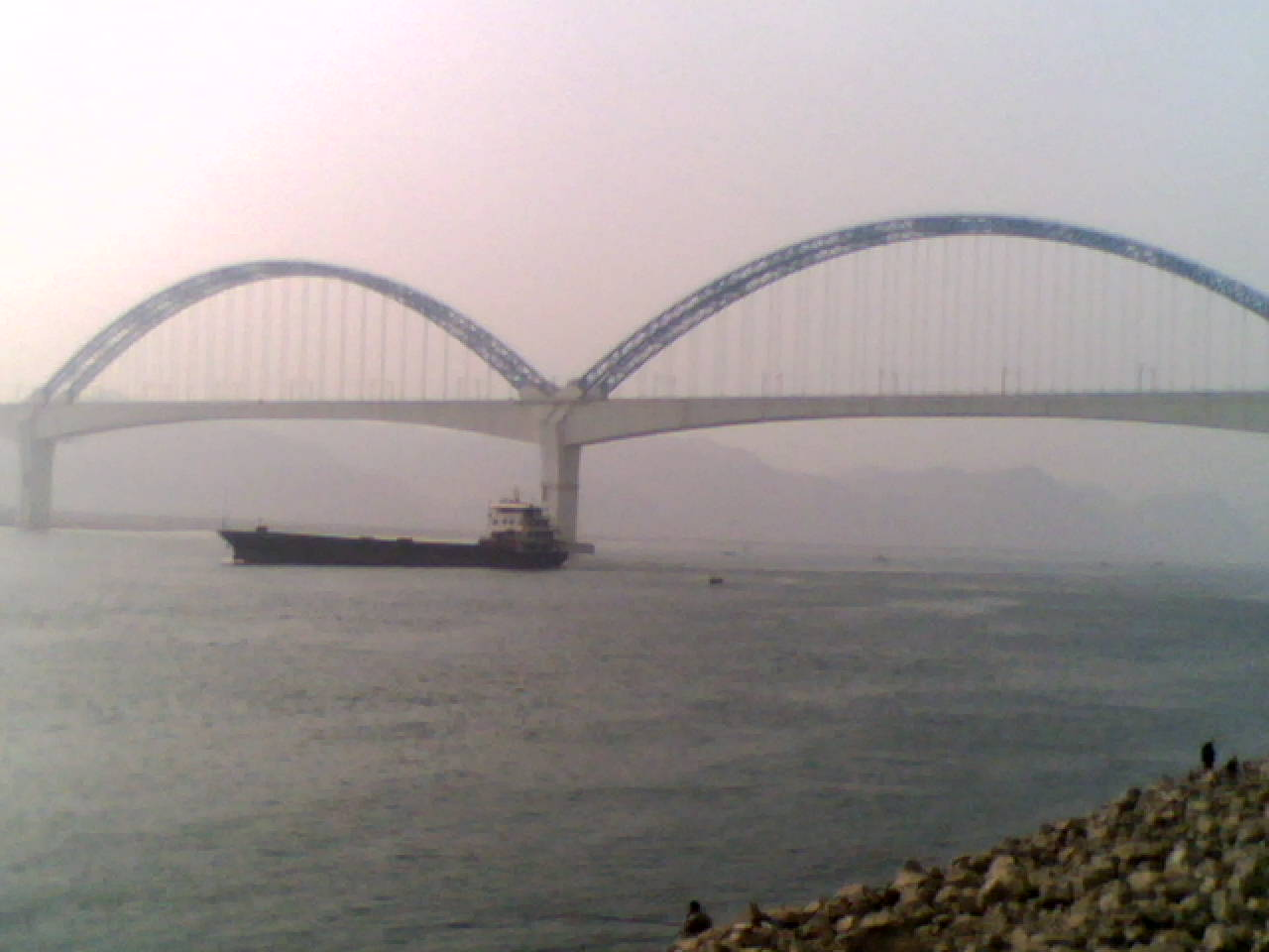 Yiwan Railway Yichang Yangtze River Bridge